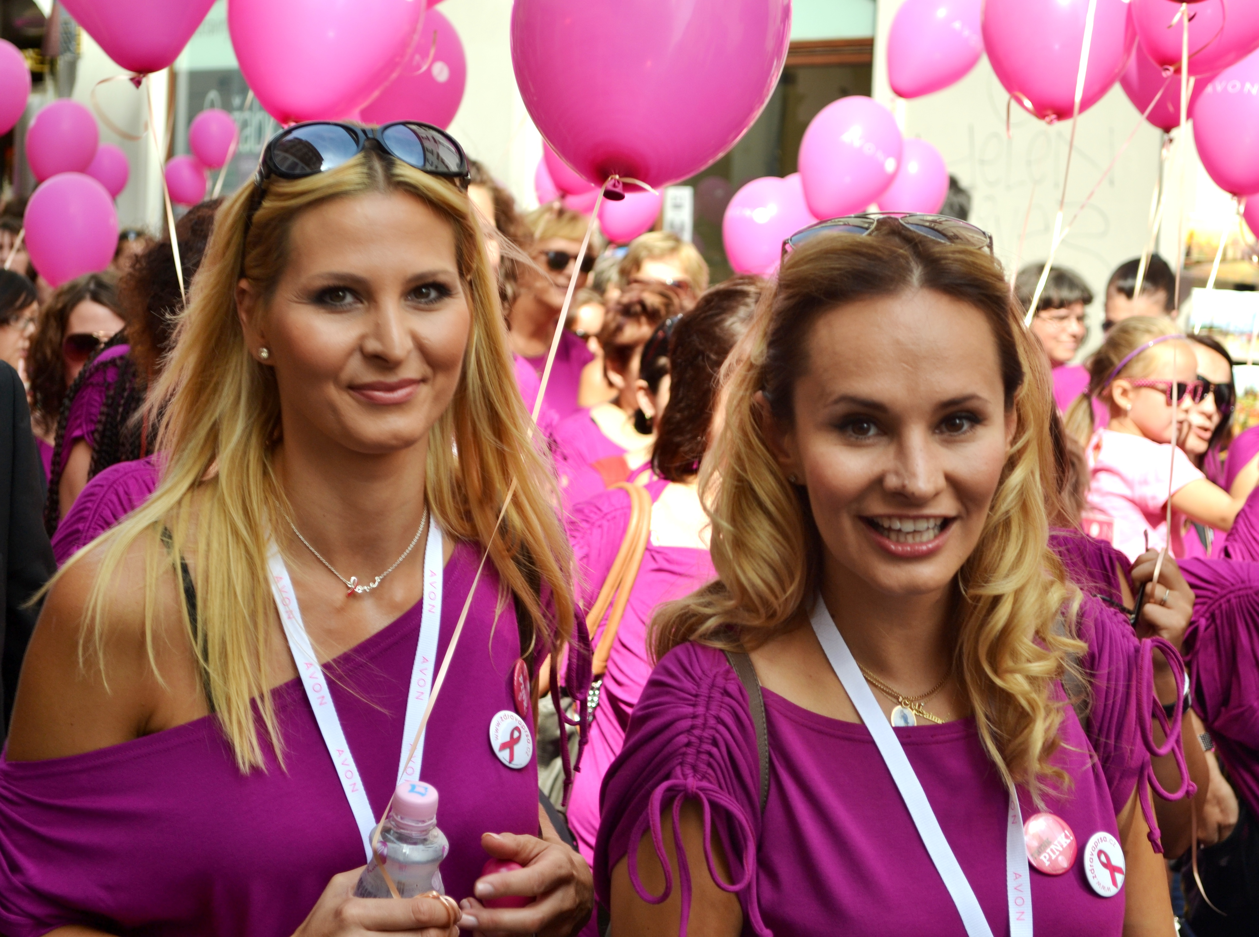 Ivana Gottová (Czech presenter) and Monika Absolonová (Czech vocalist) during AVON March 2013 in Prague